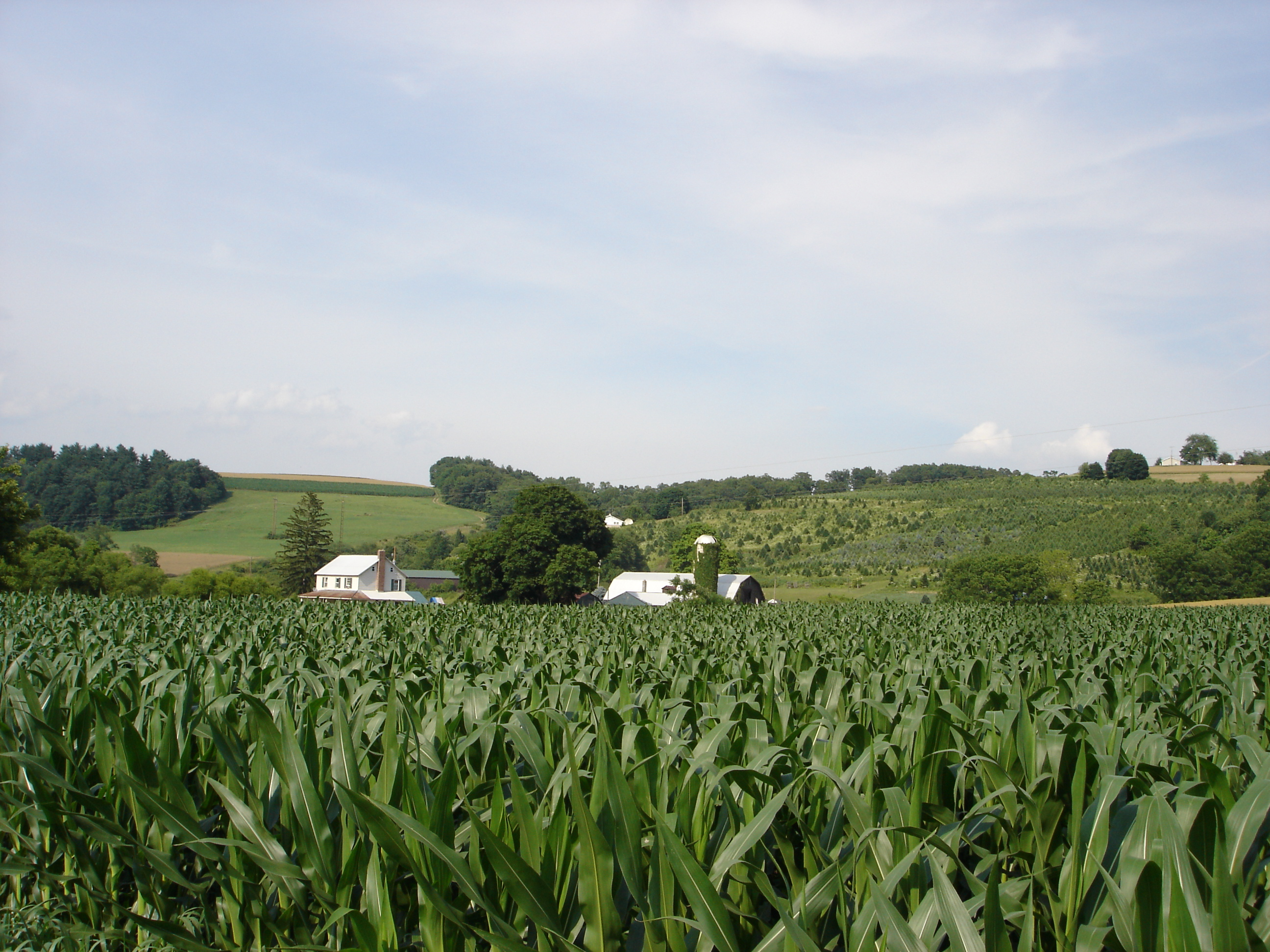 Corn Field and a distant Christmas Tree Farm in the countryside of York County, PA as viewed from York County Heritage Rail Trail County Park.